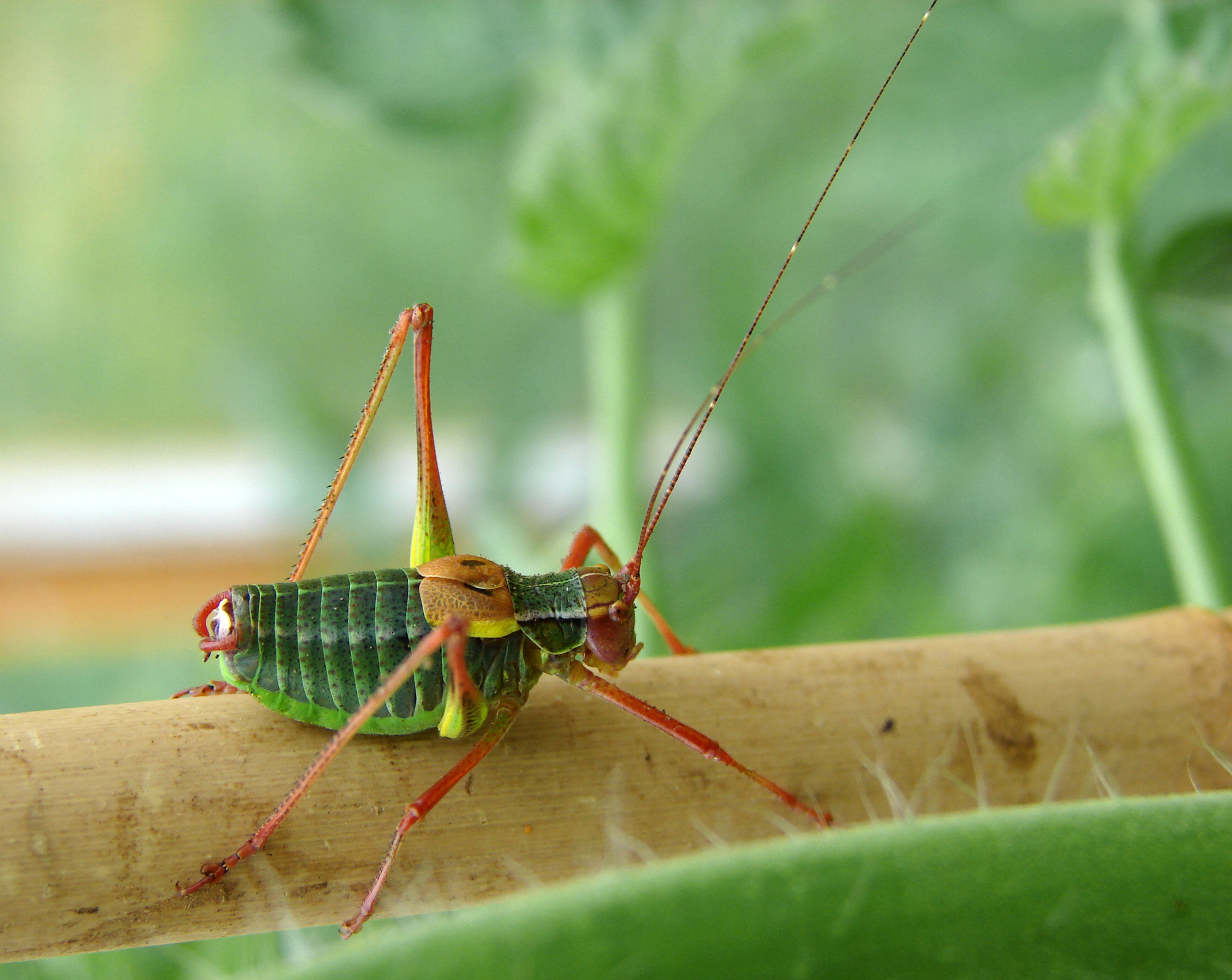 Barbitistes constrictus (male)